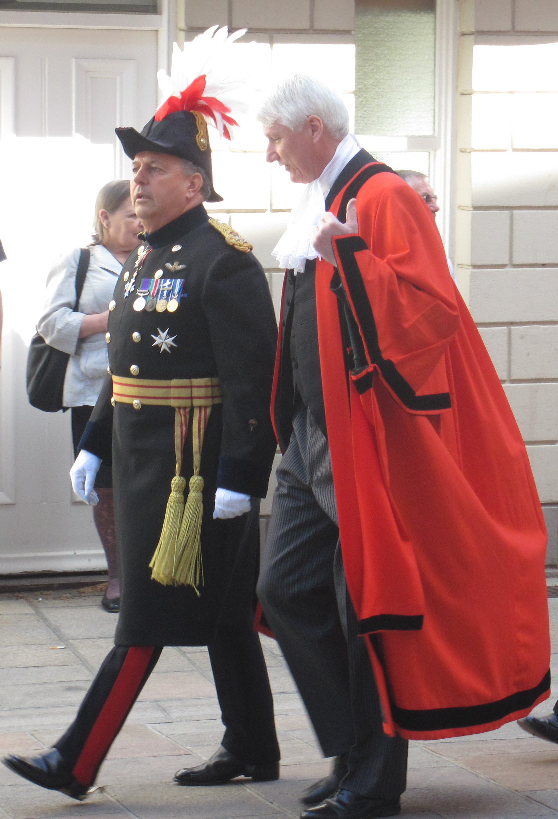 Liberation Day celebrations in Jersey 2011